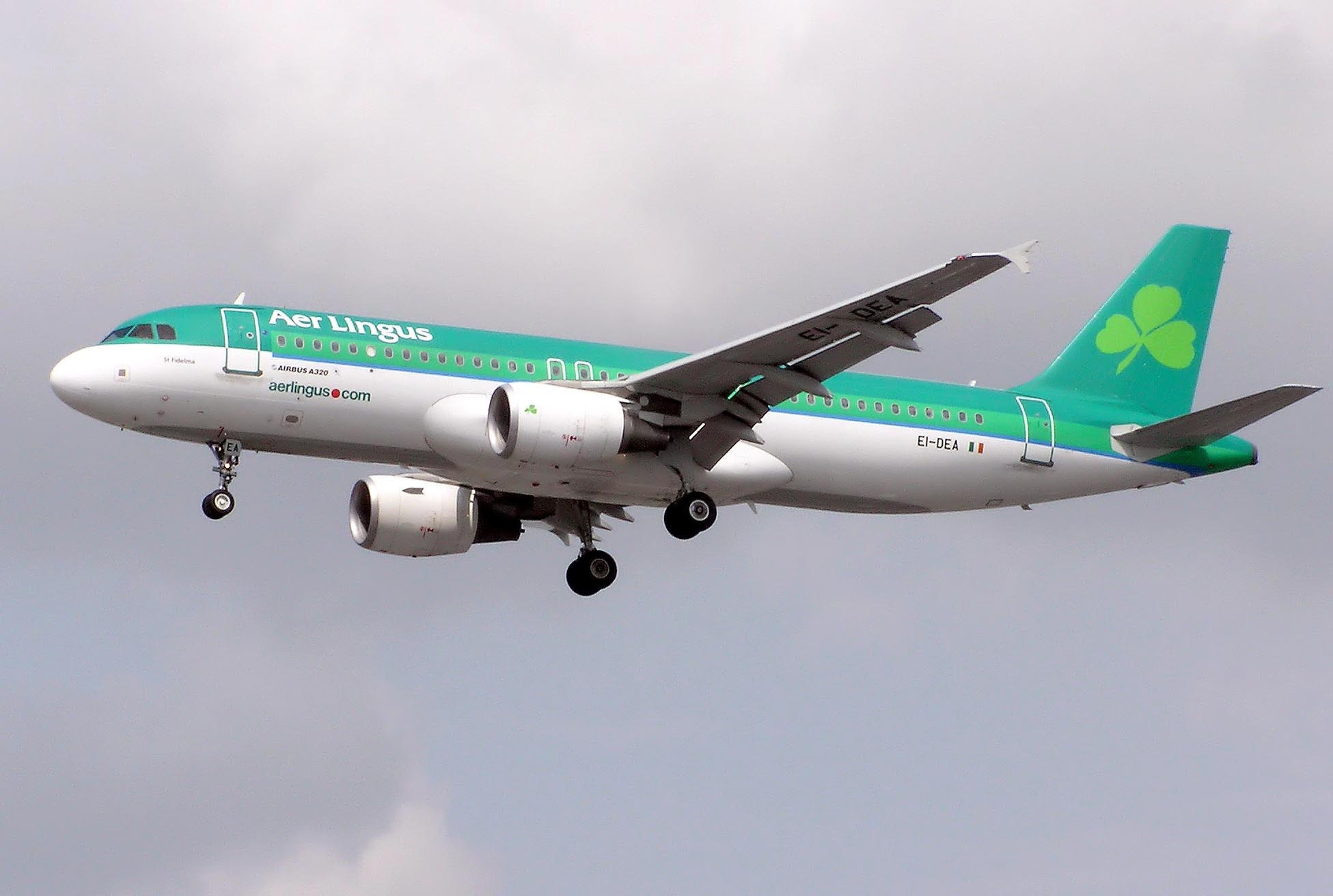 Aer Lingus Airbus A320-200 (EI-DEA) landing at London Heathrow Airport. Photographed by Adrian Pingstone in May 2006 and released to the public domain.